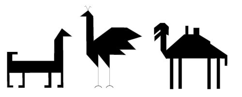 Geometric rug motives from Iran.